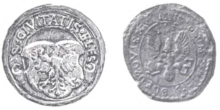 "Pieczęcie miast dawnej Polski", Muzeum Narodowe, Kraków 1905.